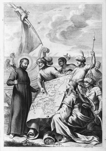 Frontispiece by Cornelis Bloemaert to Daniello Bartoli, L'Asia 1667, (3rd ed.)